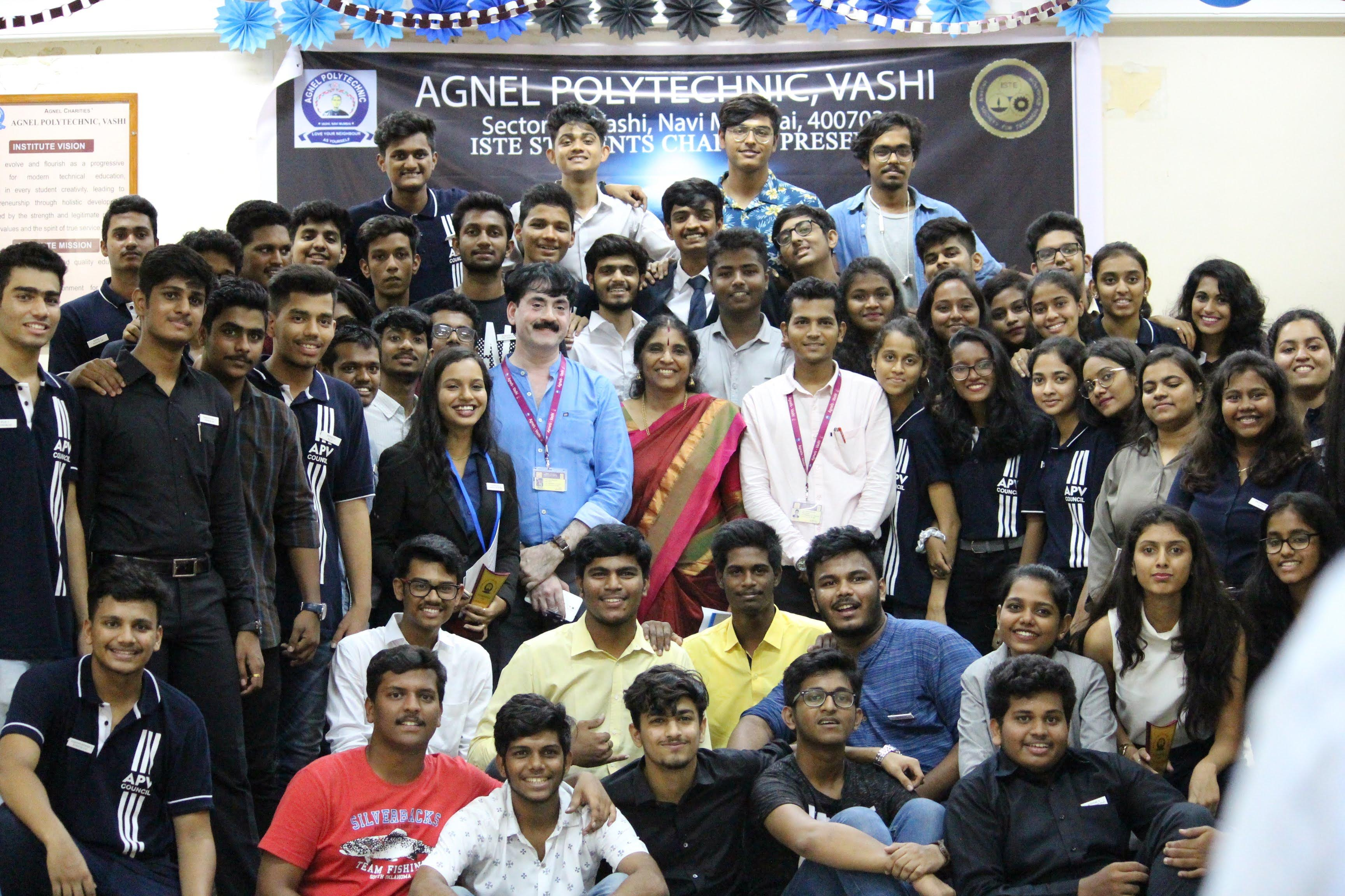 Photo with Mrs. Raji M.P, Mr. Ganesh Gawande & Student Council Members